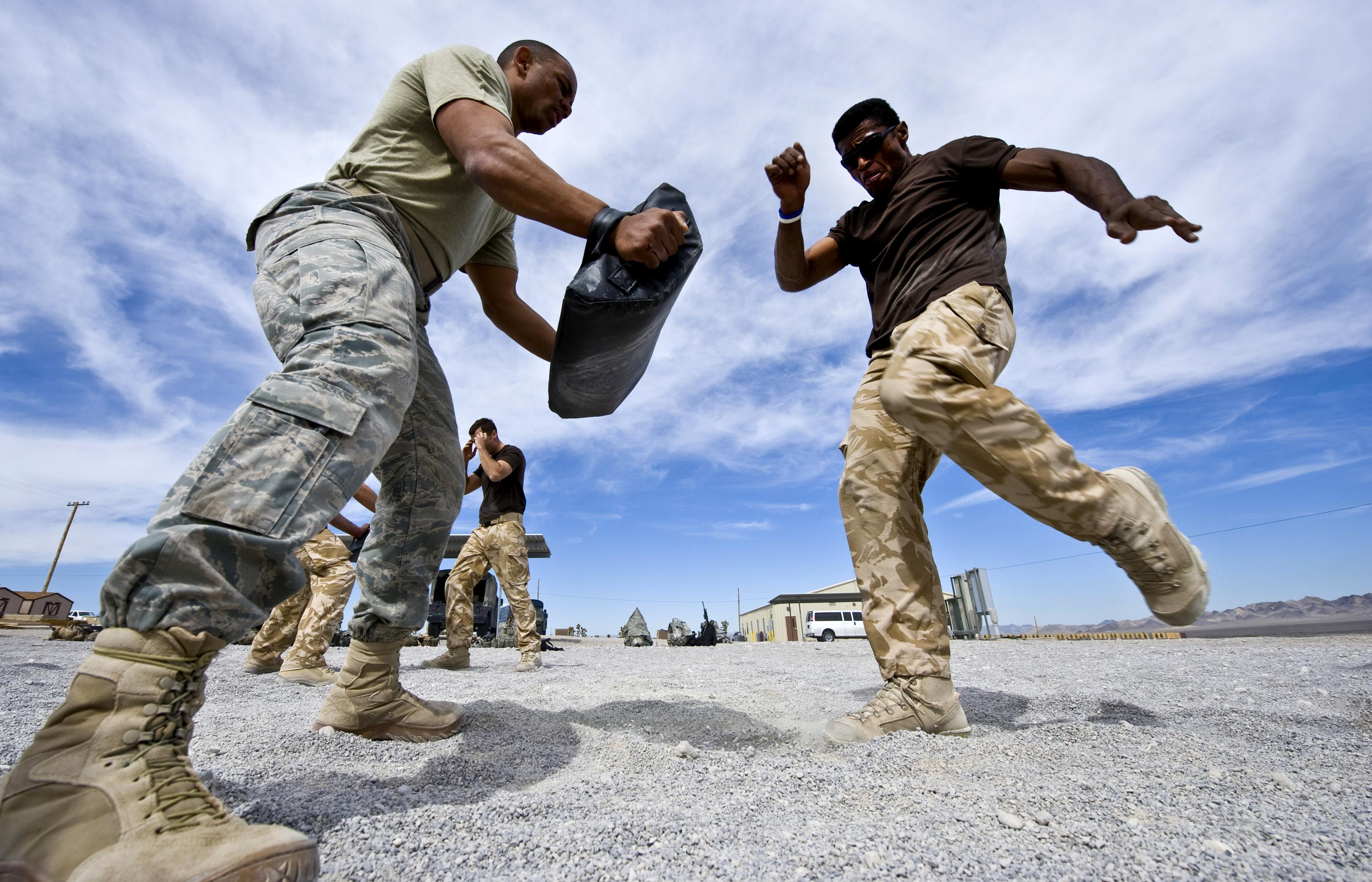 U.S. Air Force 1st Lt. Ralph Johnson, 822nd Base Defense Squadron security forces, Moody Air Force Base, Ga., and British Royal Air Force Senior Aircraftsman Tevita Ratuvuki, No. 1 Squadron Regiment 4 Force Protection Wing security forces practice Krav Maga martial arts during exercise Desert Eagle March 10, 2011. Desert Eagle is a joint training event with the RAF and the Air Force's 820th Base Defense Group designed to improve interoperability during contingency operations.